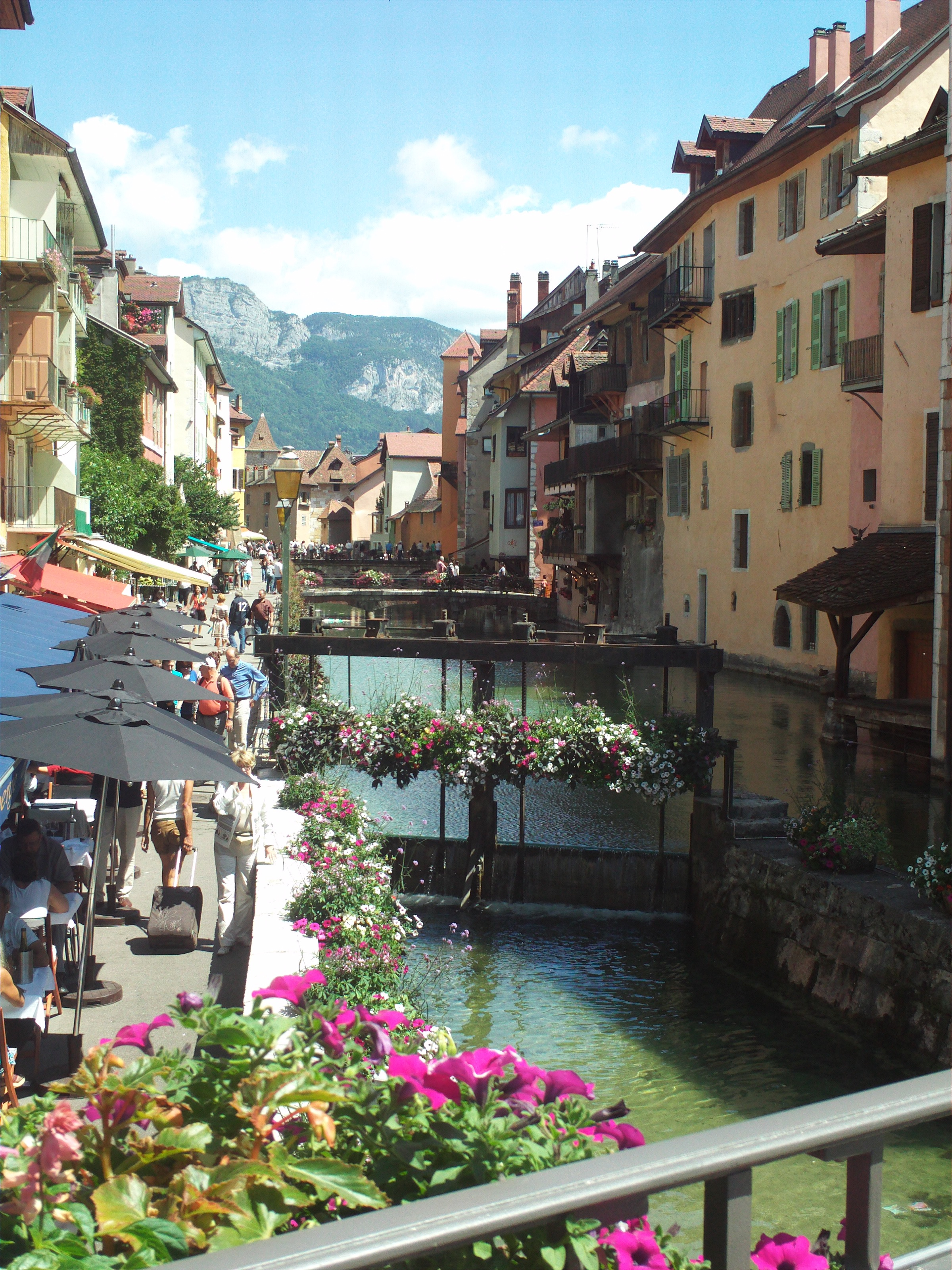 A canal in Annecy's old town. At the corner of Quai de l'Évêché and Rue de la République, Annecy.